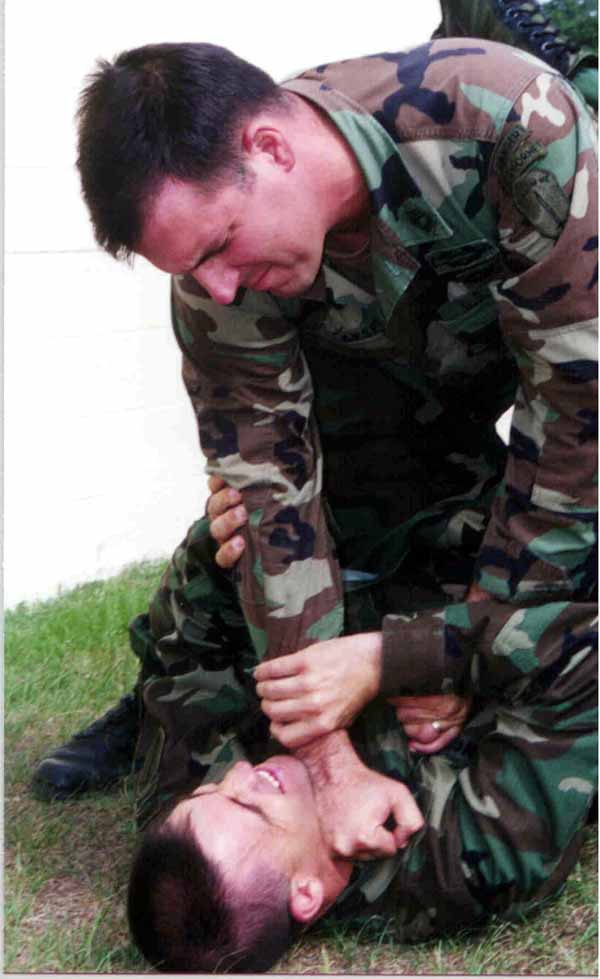 U.S. Army military police at Fort Benning, Ga., practice hand-to-hand combat techniques.